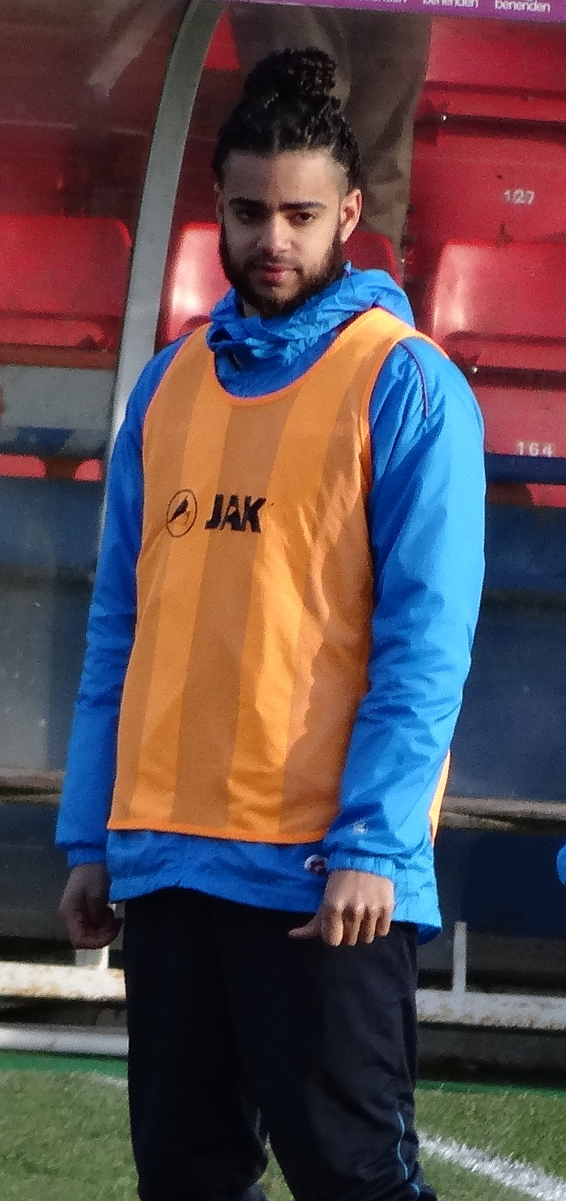 Derwin Martina warming up for York City against Eastleigh at Bootham Crescent, York on 4 March 2017